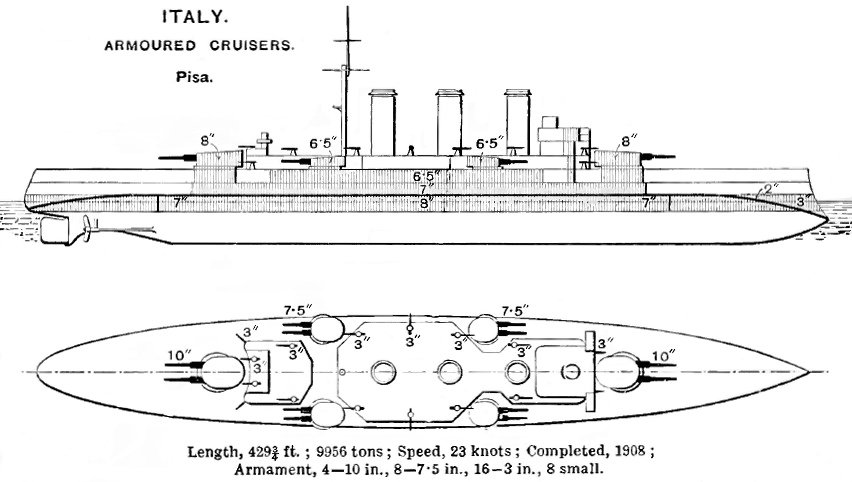 Right elevation and deck plan diagrams depicting Italian Pisa class armoured cruiser. Top diagram shows armour thickness in inches; bottom diagram shows gun calibres in inches.